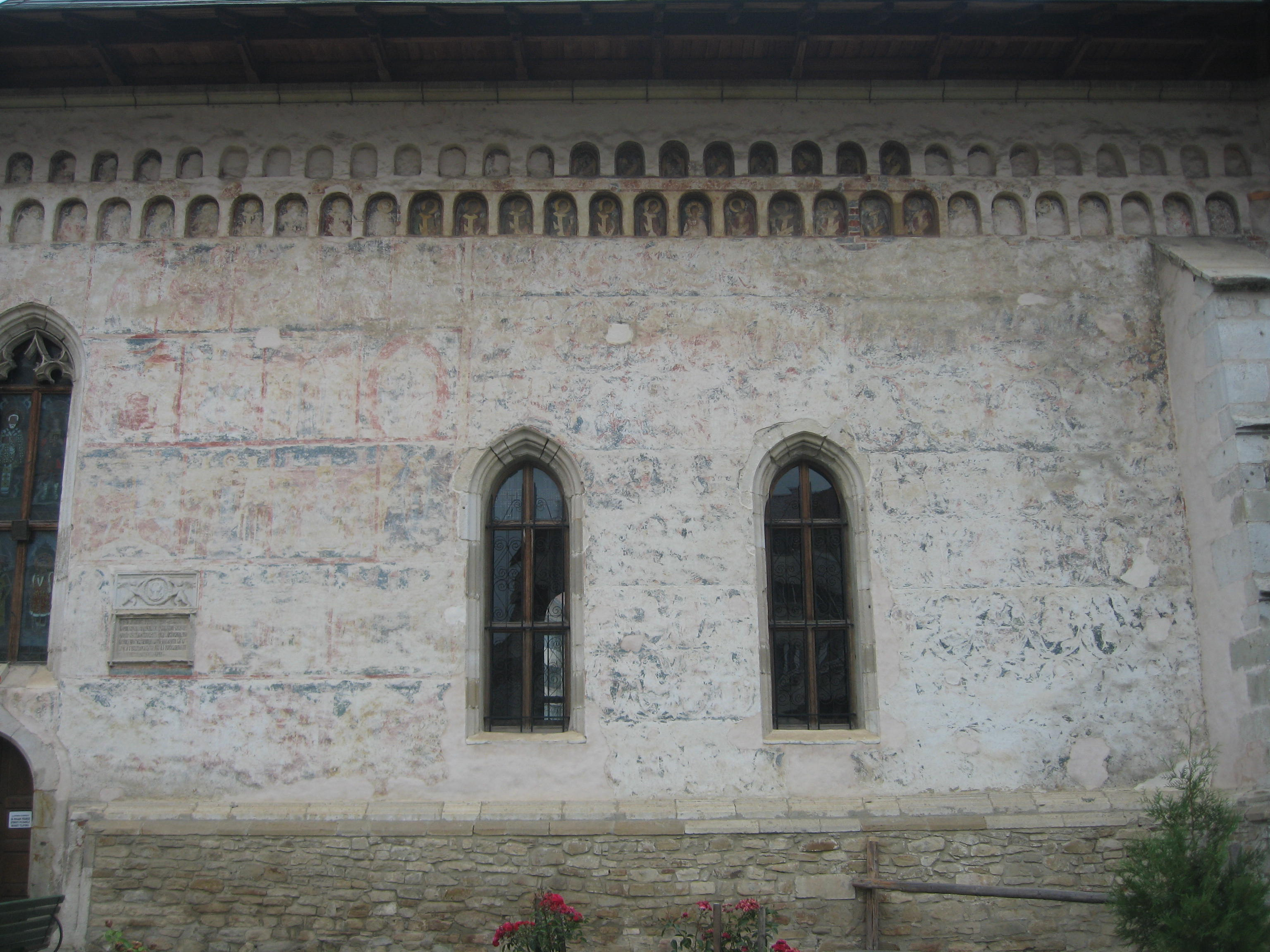 St. Demetrius Church in Suceava.